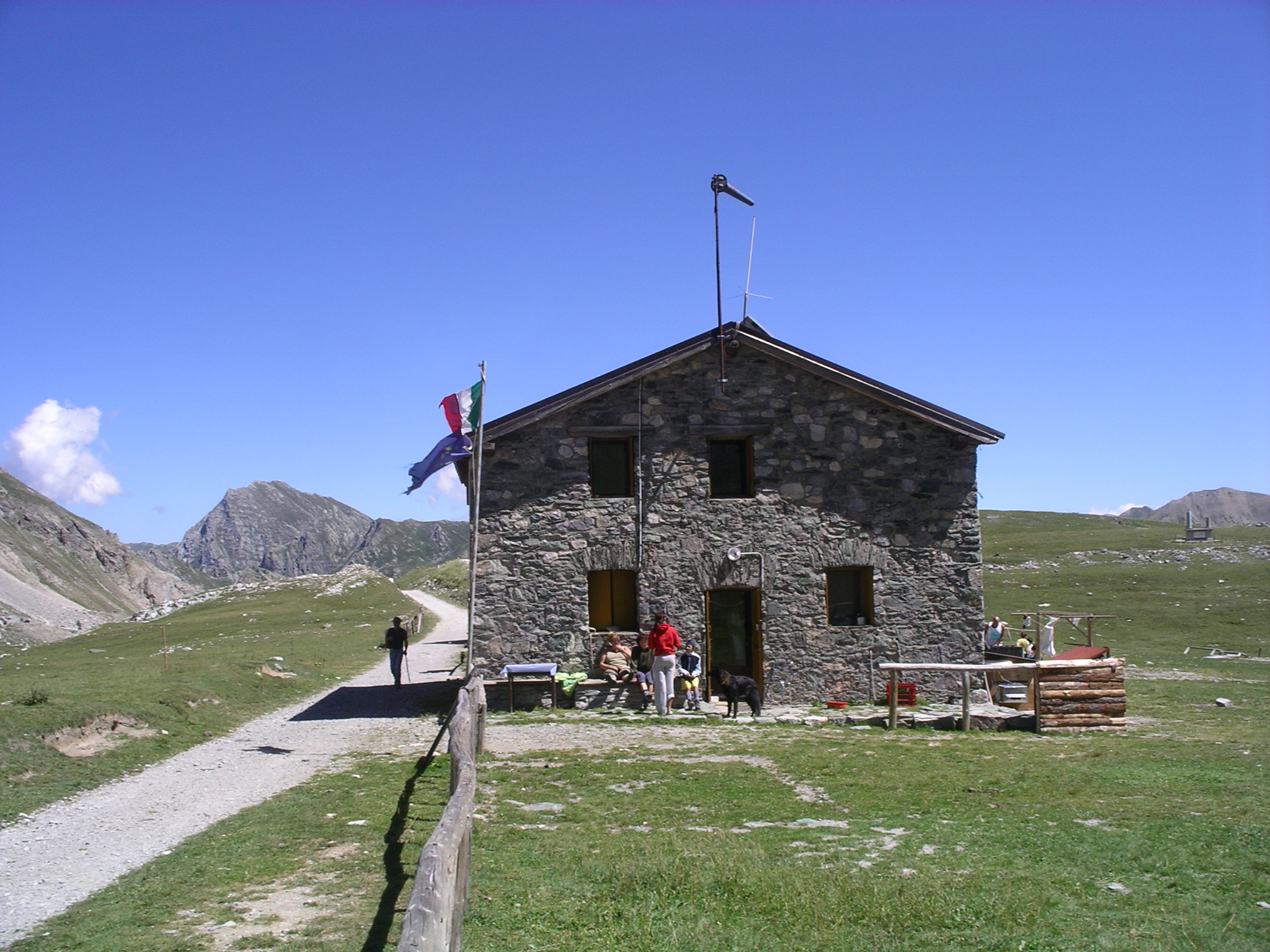 Gardetta alpine hut, Canosio (CN), Italy